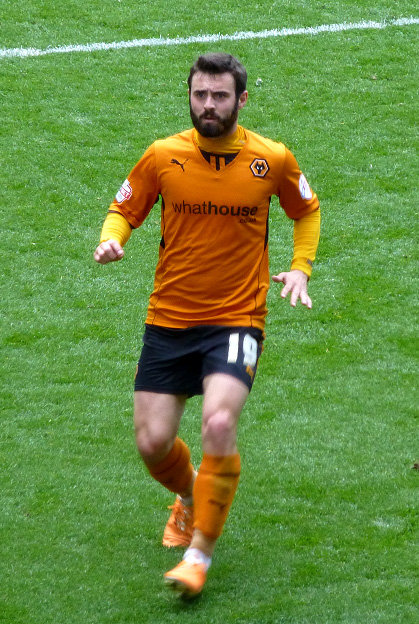 Jack Price - Wolverhampton Wanderers vs Peterborough United (05/04/2014)